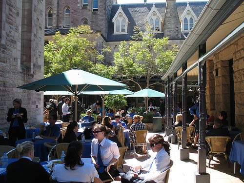 A picture of the outdoor student commons area at ICMS.